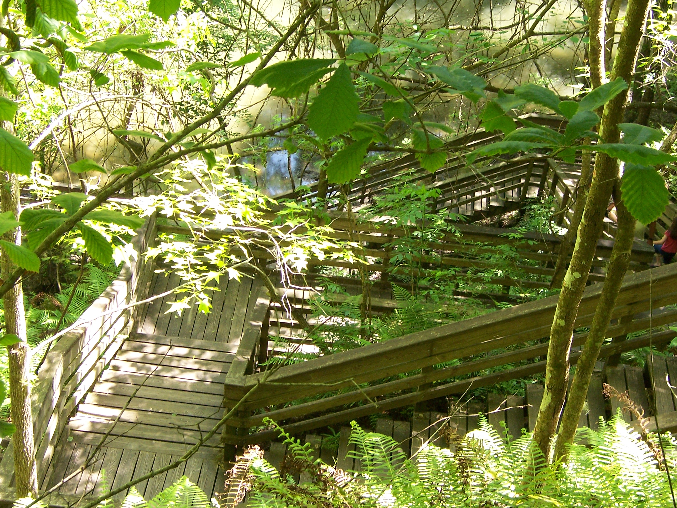 Stairs leading down to observation deck at Devil's Millhopper Geological State Park